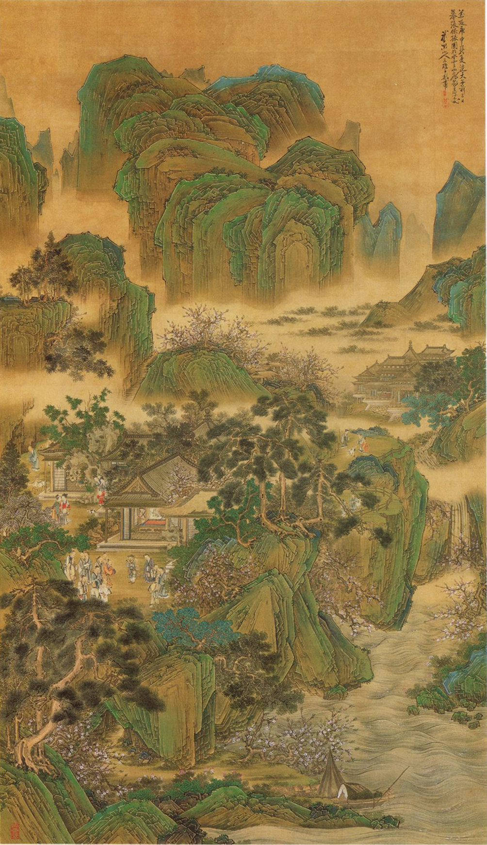 The utopia of peach blossams in Wuling ;hanging scroll,colors on silk 絹本着色